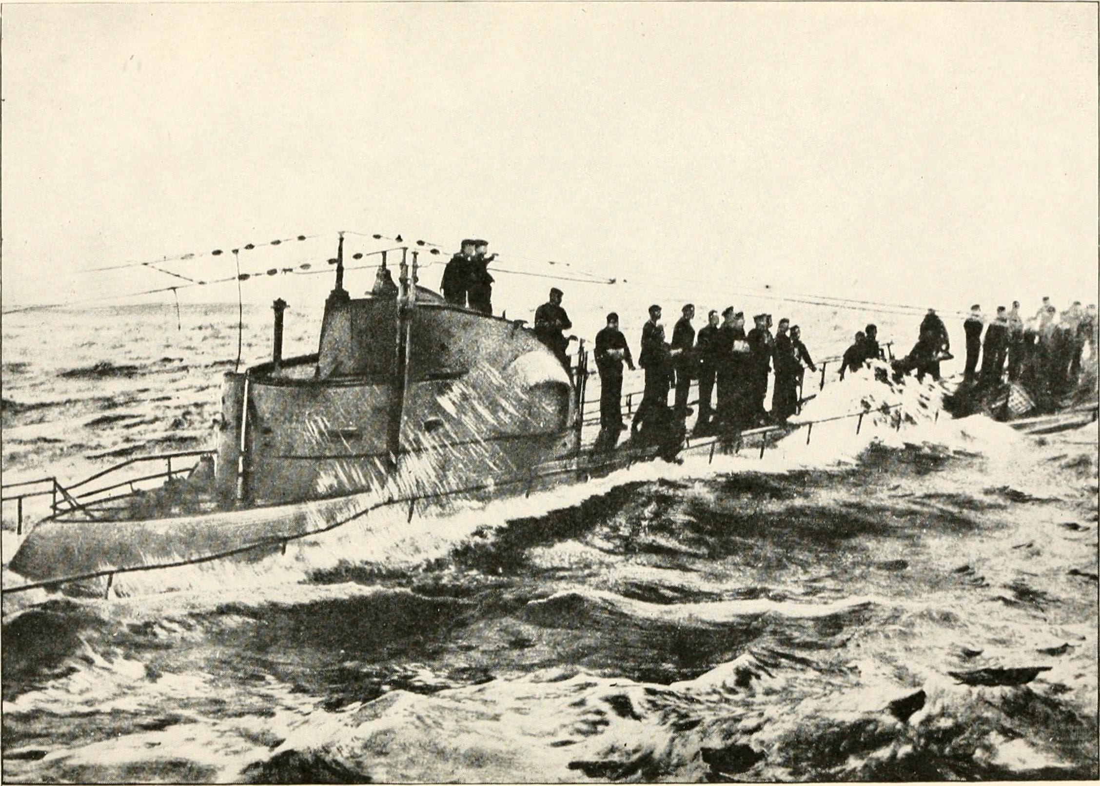 The sinking of SM U-58 by the U.S.S. Fanning and U.S.S. Nicholson (17 November 1917) Title: German submarine activities on the Atlantic coast of the United States and Canada Year: 1920 (1920s) Authors: United States. Office of Naval Records and Library Subjects: World War, 1914-1918 -- Naval operations Submarine World War, 1914-1918 -- Germany Publisher: Washington : Govt. Print. Off. Text Appearing Before Image: ' Text Appearing After Image: O r=^ 6 aJ (Frontispiece.) NAVY DEPARTMENTOFFICE OF NAVAL RECORDS AND LIBRARY HISTORICAL SECTION Publication Number 1 GERMAN SUBMARINE ACTIVITIES ONTHE ATLANTIC COAST OF THEUNITED STATES AND CANADA Published under the direction of The Hon. JOSEPHUS DANIELS, Secretary of the Navygermansubmarinea00unitrich Original caption: “THE UNITED STATES NAVY'S FIRST U-BOAT CAPTURE. German U-58 captured by the Unites States destroyers U.S.S. Fanning and U.S.S. Nicholson.”